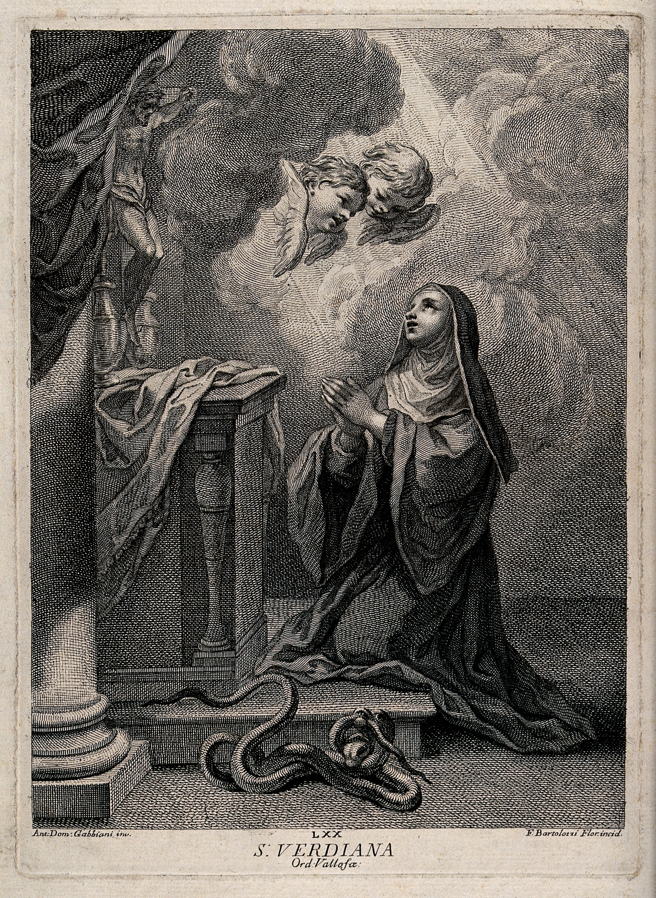 Saint1 Verdiana. Engraving by F. Bartolozzi after A.D. Gabbiani. Iconographic Collections